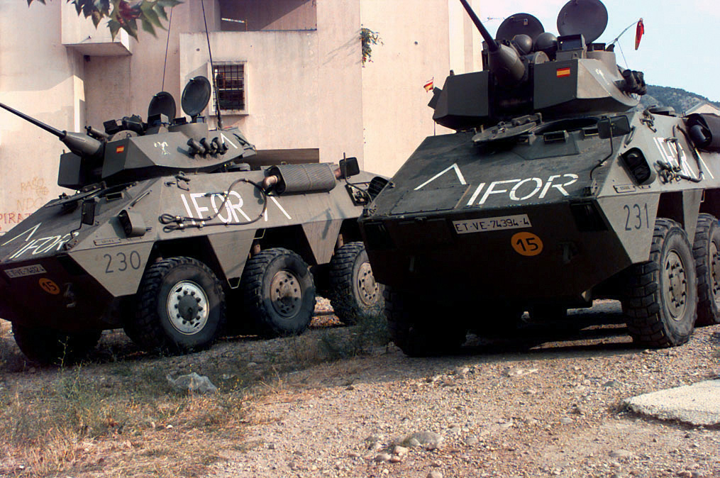 IFOR Troops were prepared to assist in possible disturbances during Mostar elections. With more than 2500 IFOR Troops securing the divided town, voting remained peaceful. The Mostar elections provided a crucial test for the Dayton Peace Accord which ended the 3 1/2 year war in Bosnia. Shown are the Spanish made BMR-600 varient VEC-25 6x6 Wheeled Armoured Reconnaissance Vehicle fitted with a TC25 turret armed with a 25mm M242 gun.